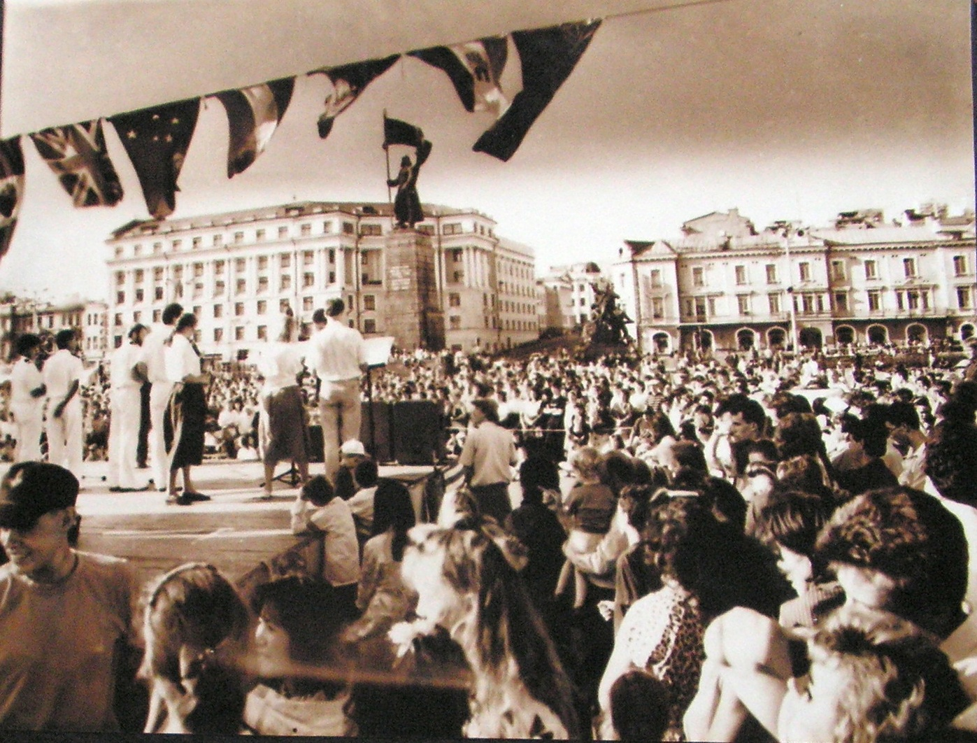 Christian festival in the central square of Vladivostok, organized by international crew missionary vessel "Doulos" and local believers, 1992